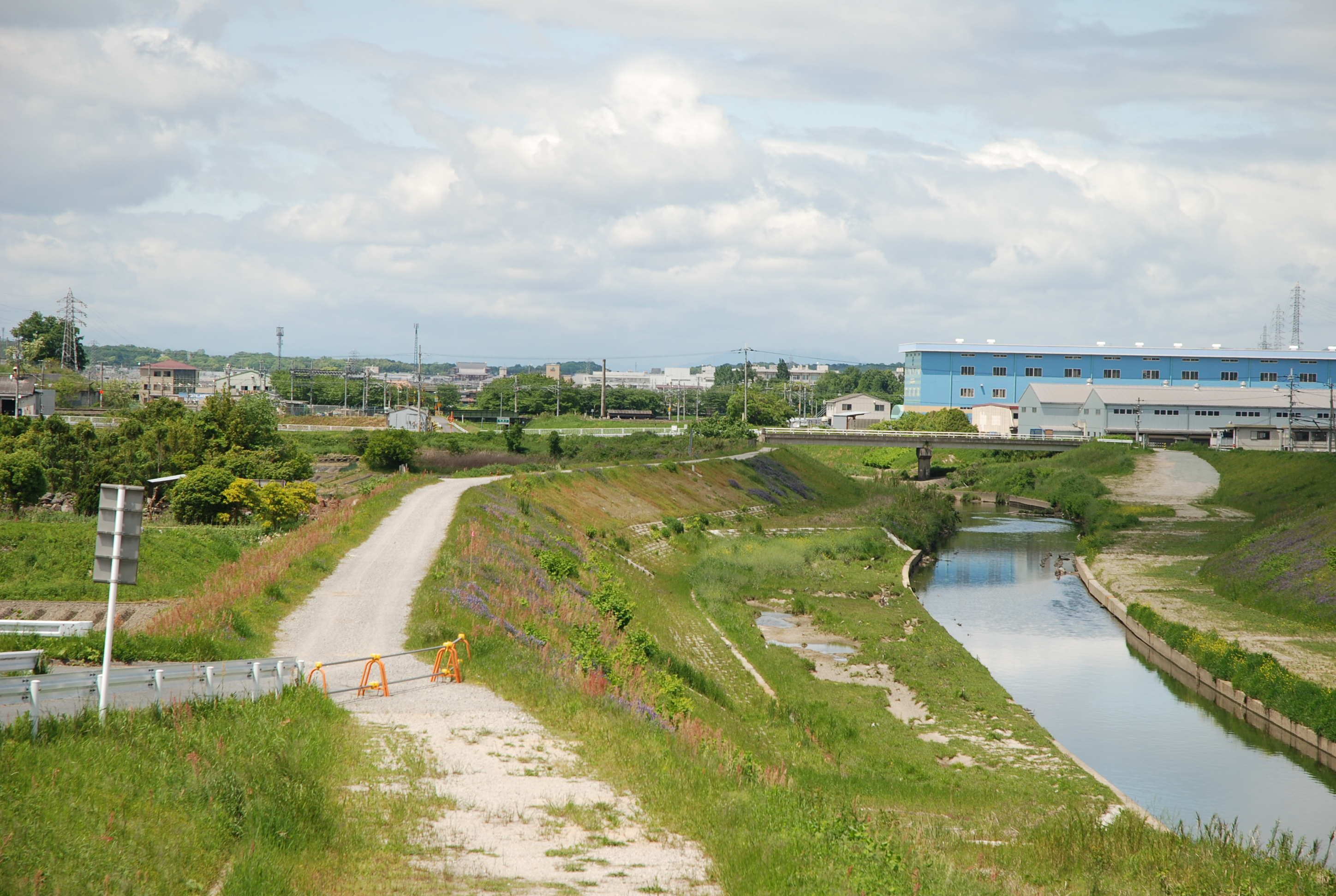 Looking towards Heijyoukyo, from Rasyomon bridge